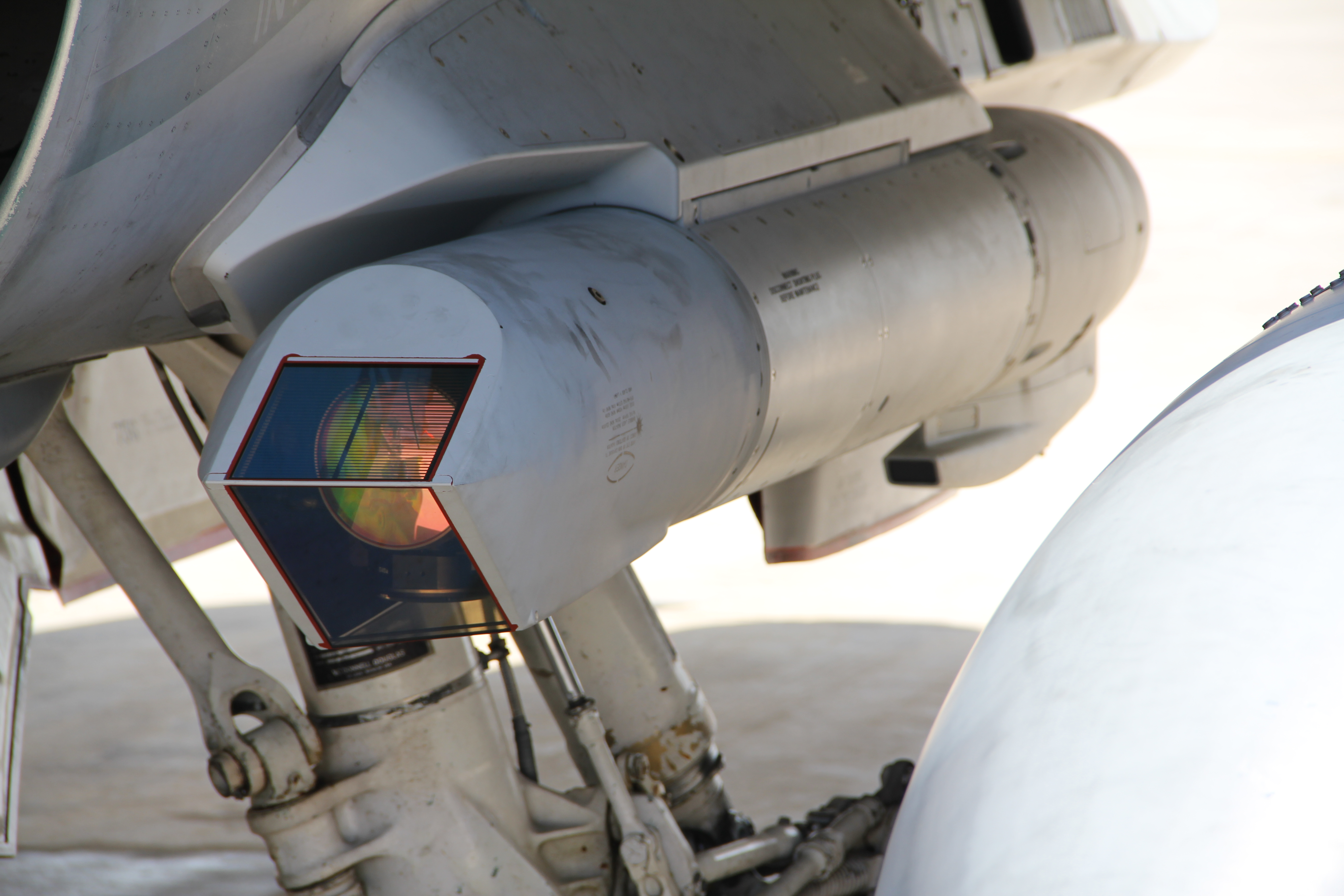 Sniper XR pod mounted on Canadian CF-188